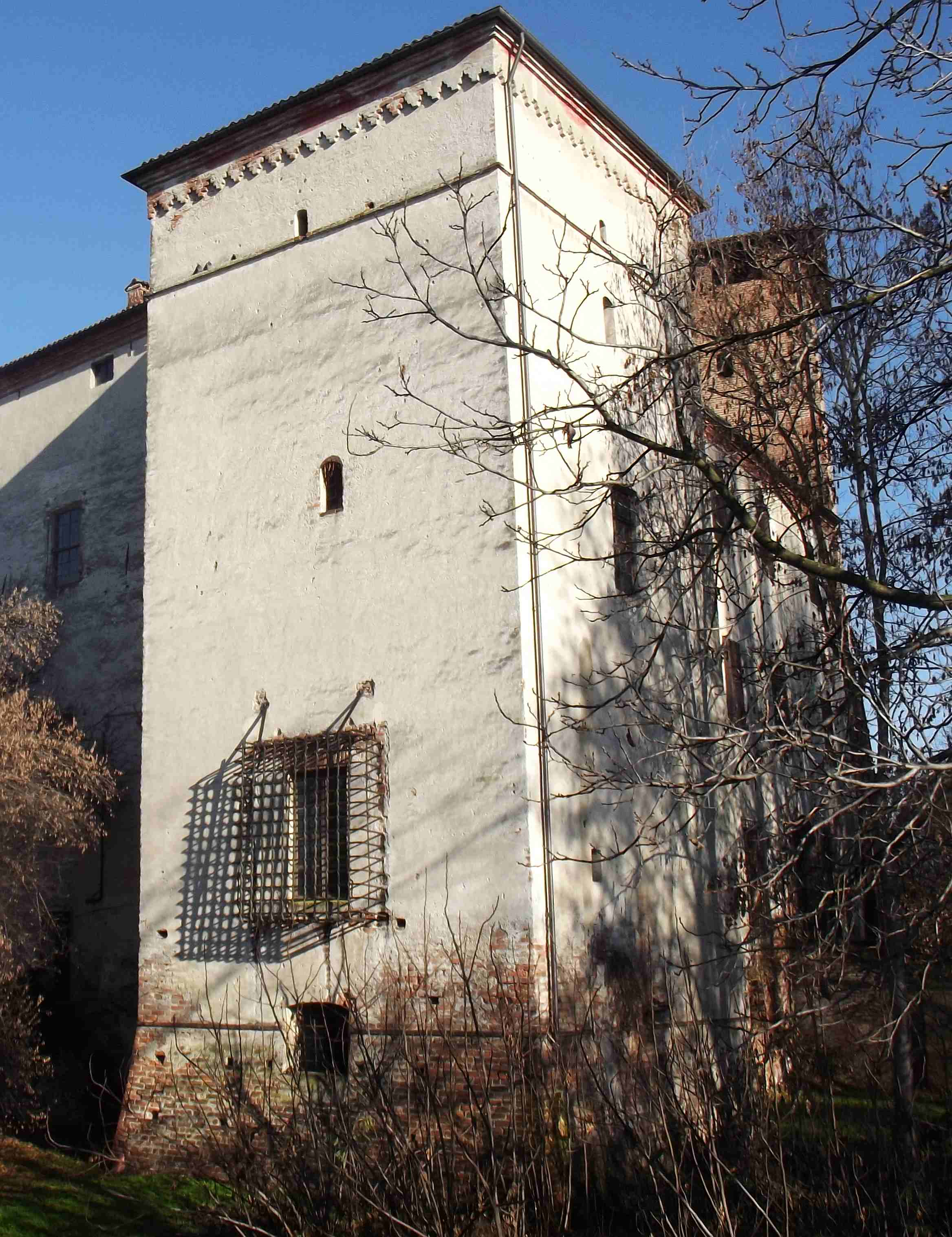 Polonghera (CN, Italy): the castle